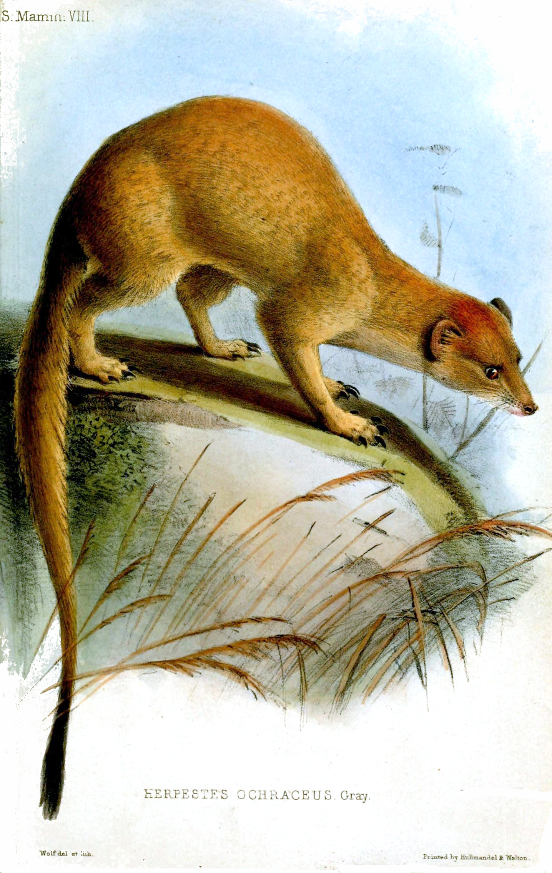 Somali Slender Mongoose